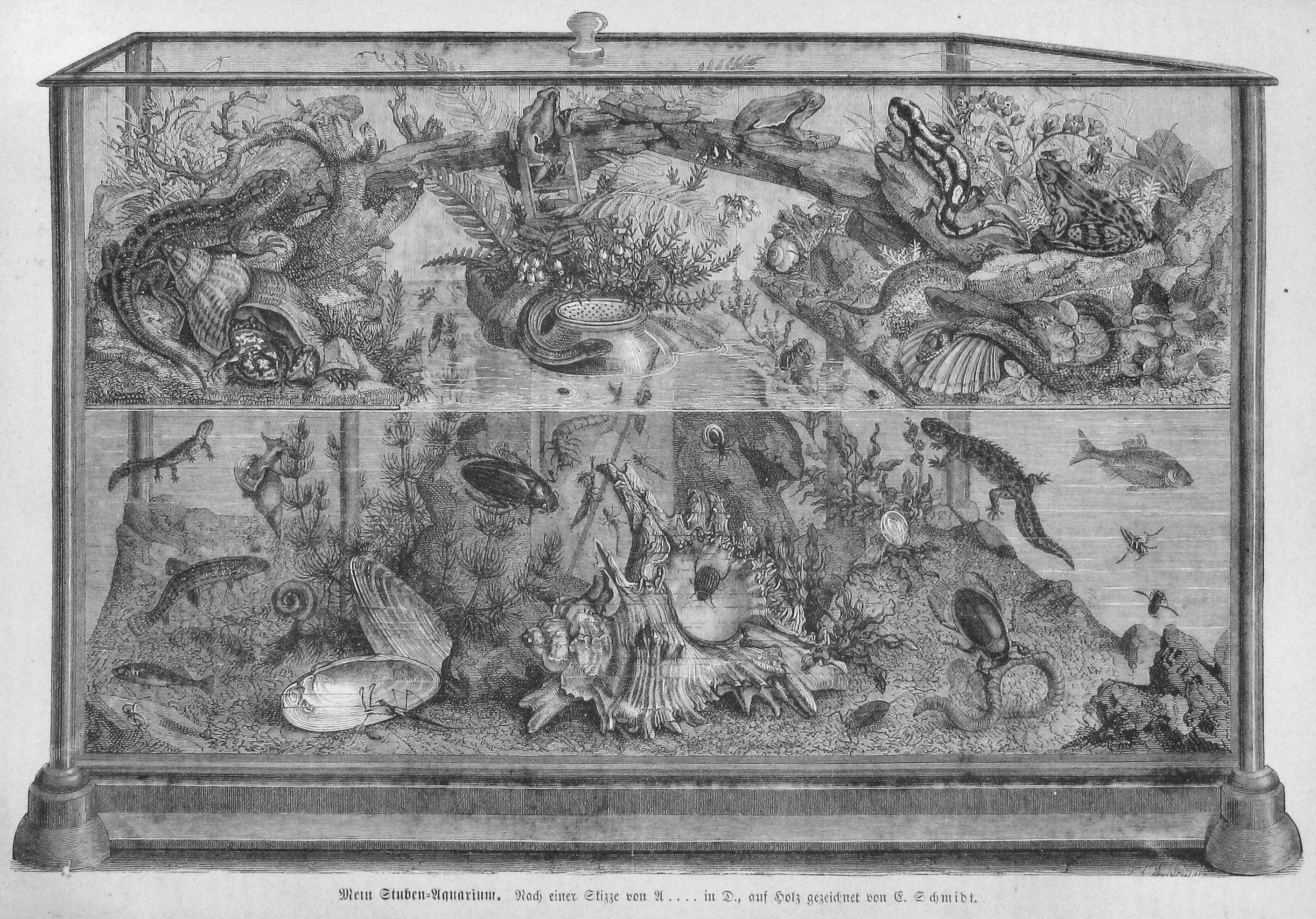 caption: "Mein Stuben-Aquarium. Nach einer Skizze von A.... in D., auf Holz gezeichnet von E. Schmidt."